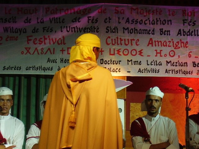 A Moroccan Amazigh wearing a burnous (back)